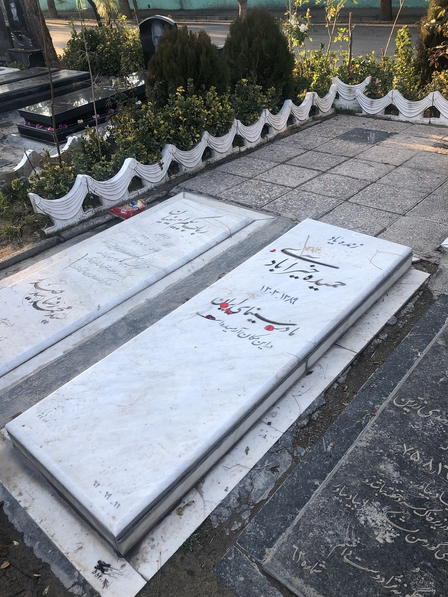 Behesht Zahra